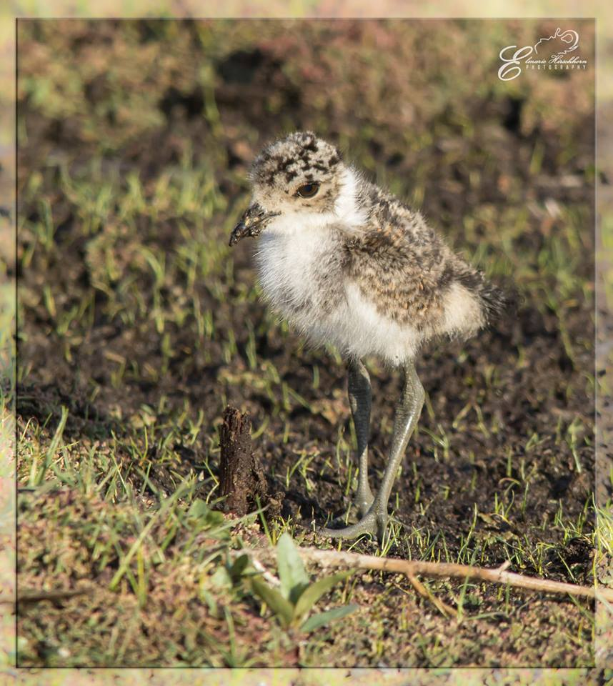 Vanellus armatus (Blacksmith lapwing chick) at Marievale near Johannesburg, South Africa